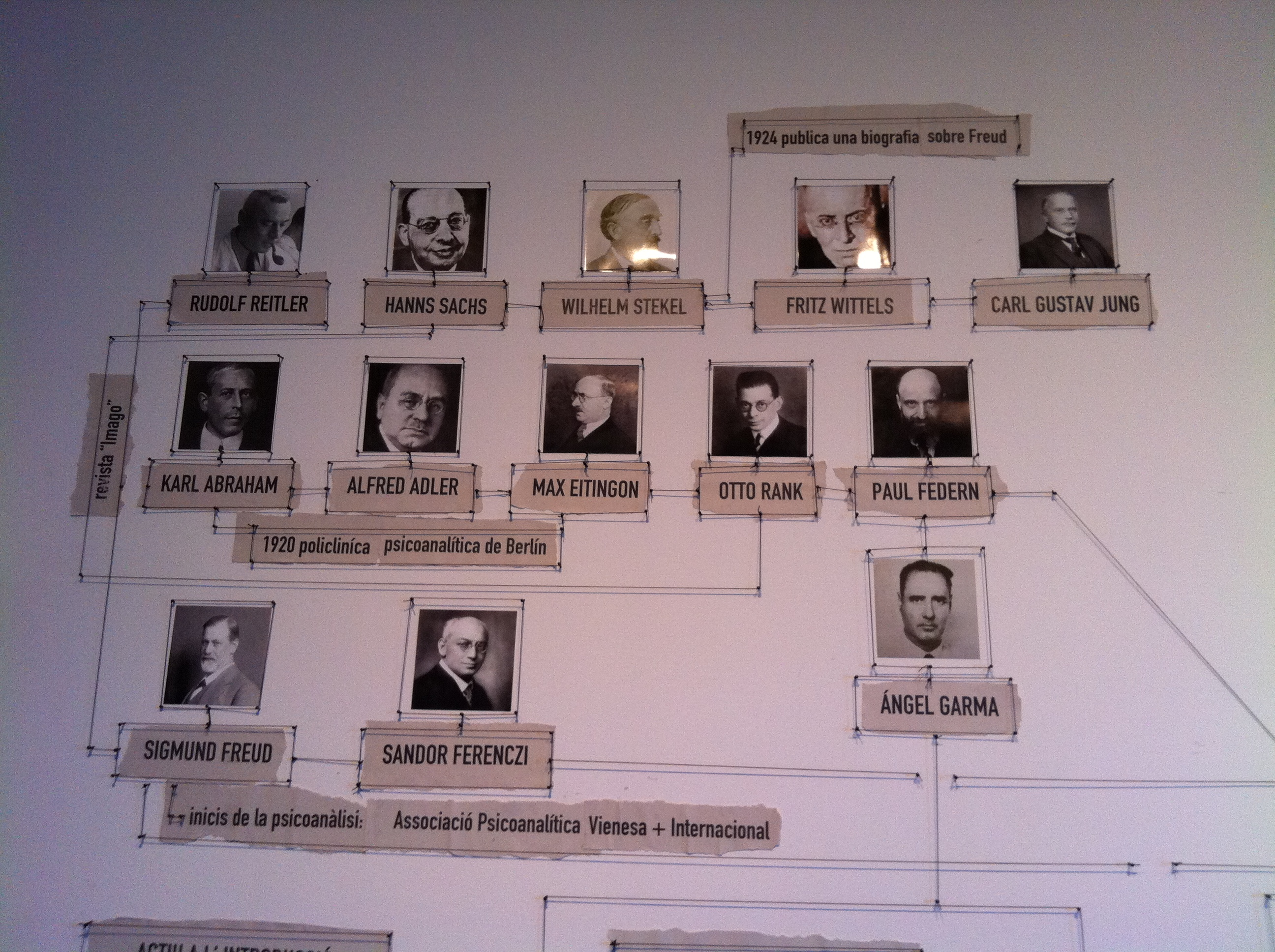 La Trieste de Magris. Exhibit about the Trieste of Claudio Magris, shown at CCCB during 2011